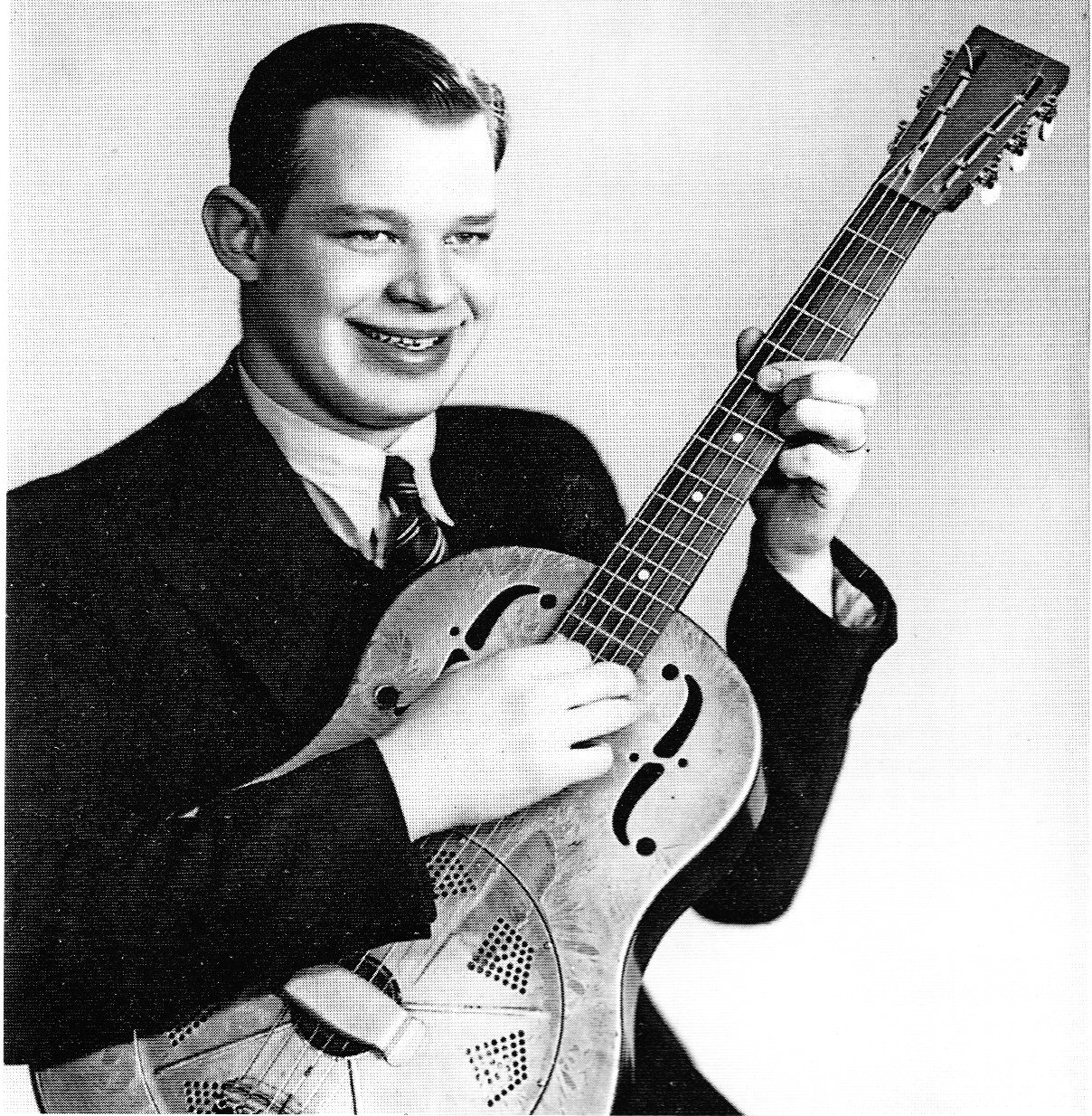 Kauko Käyhkö